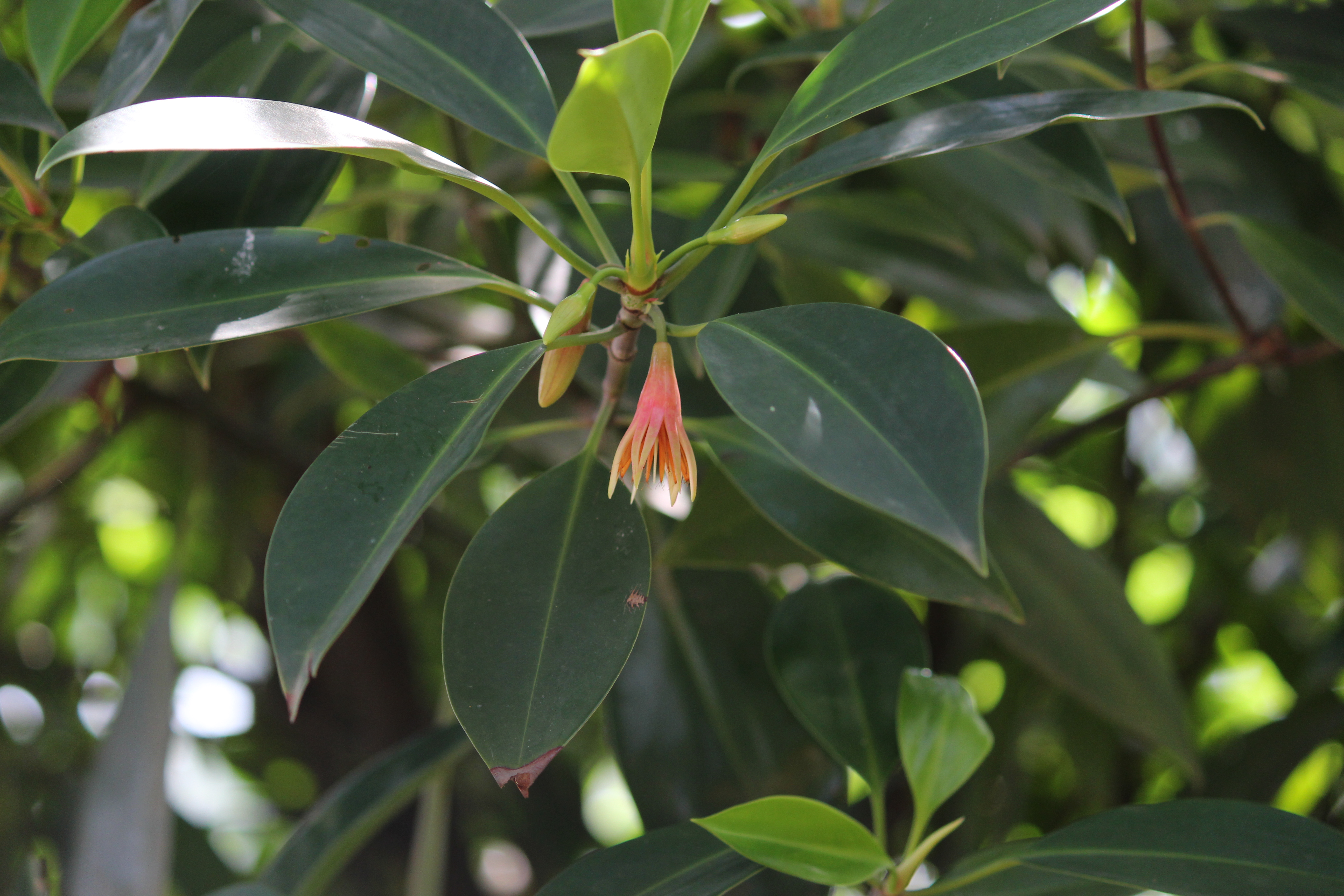 Bruguiera gymnorrhiza (black mangrove